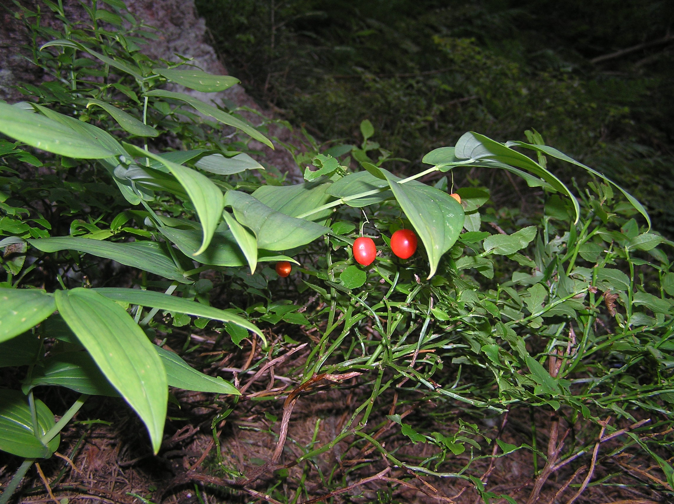 Streptopus amplexifolius, Králický Sněžník, Czech Republic